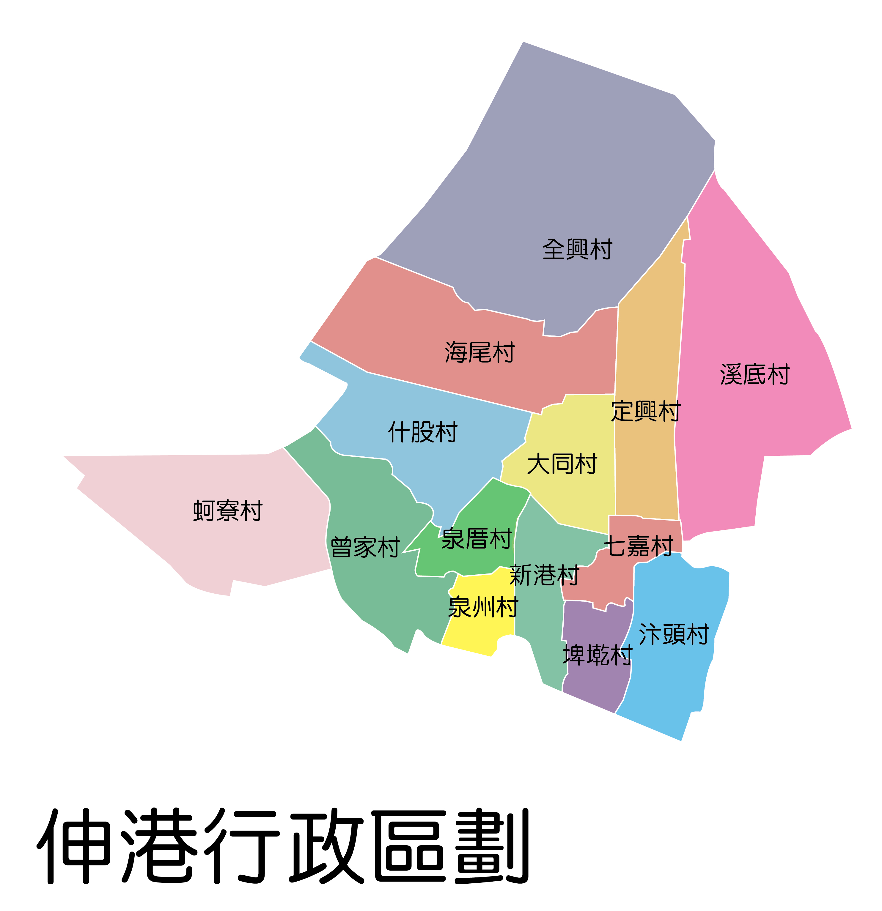 SHENGANG TOWNSHIP